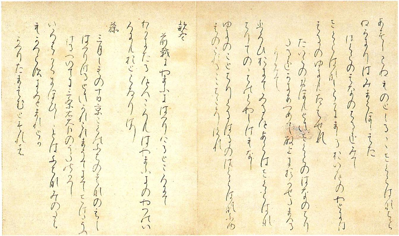 Poems from the anthology Tsutsumichūnagon shū. Attributed to Ki no Tsurayuki. Handscroll, ink on dyed paper. Heian period, 11th century CE.